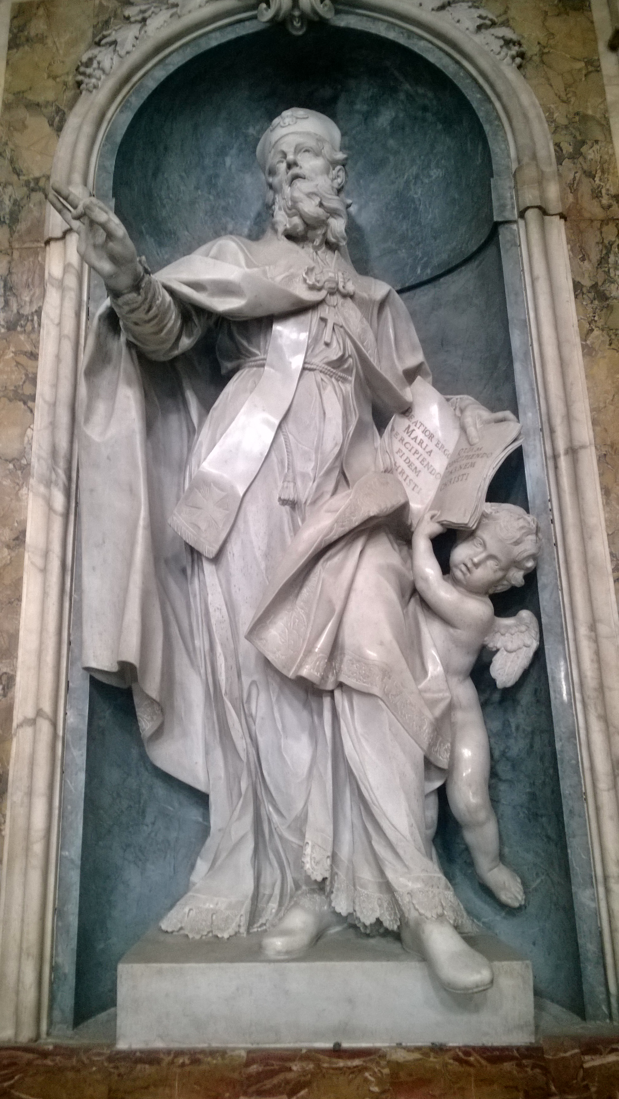 Statue of S.Augustin by XVIII century italian artist Giovanni Antonio Cybei, Sarzana, Cathedral